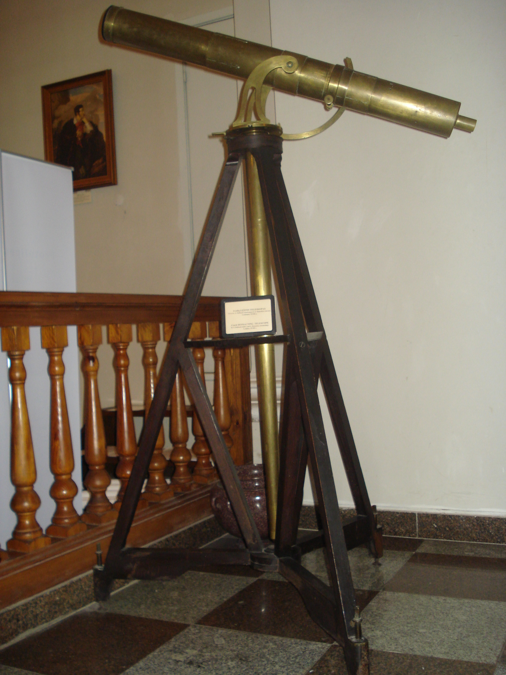 4 inch refracting telescope by John Dollond (1706-1761) (tube) and J. Ramsted (mount). London, 18th cent. White hall of the Vilnius university libraryLietuvių: 4 Colių teleskopas. 18 amžius, Londonas. Vilniaus universiteto bibliotekos baltoji salė